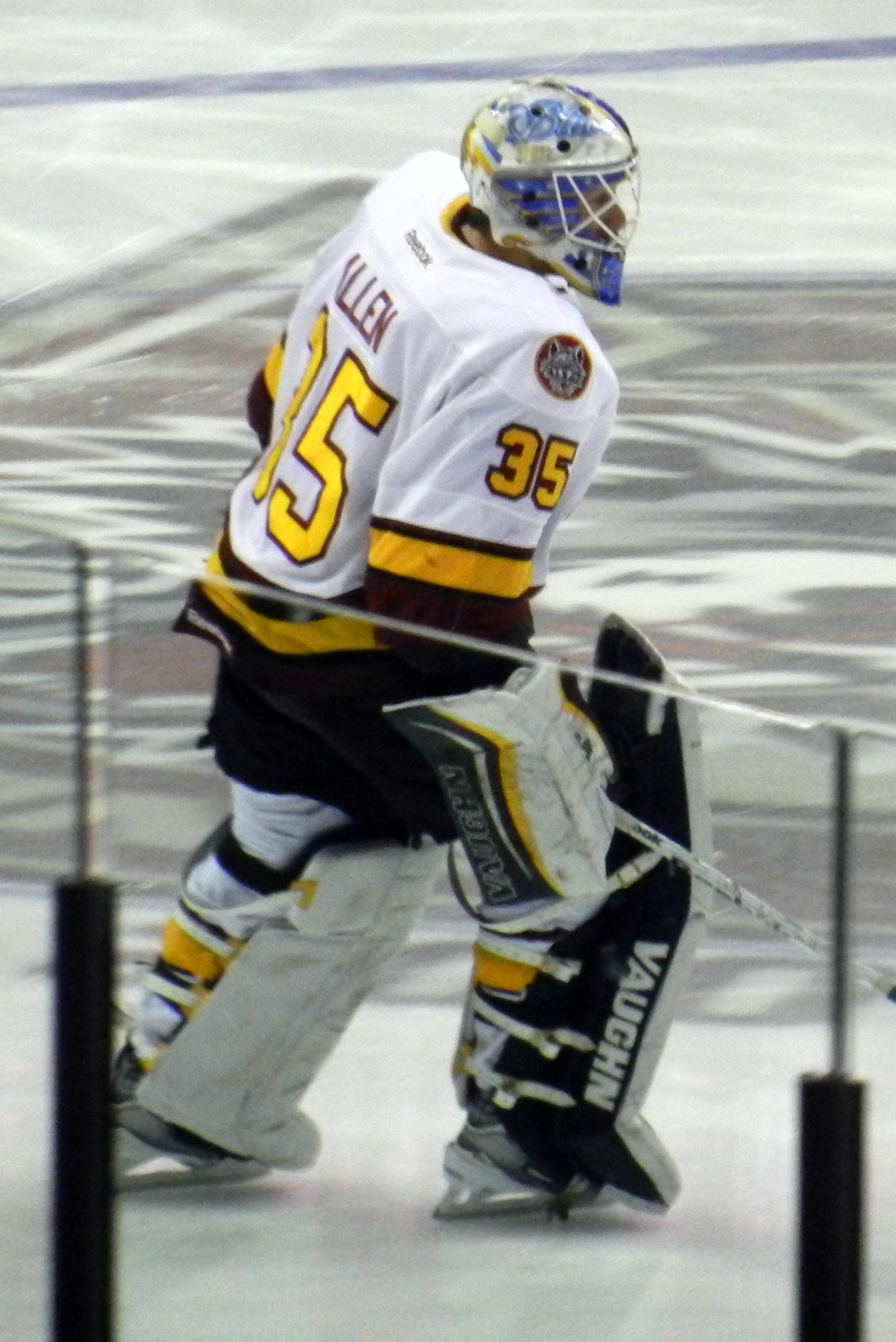 Jake Allen with the Chicago Wolves during the 2013-14 AHL season